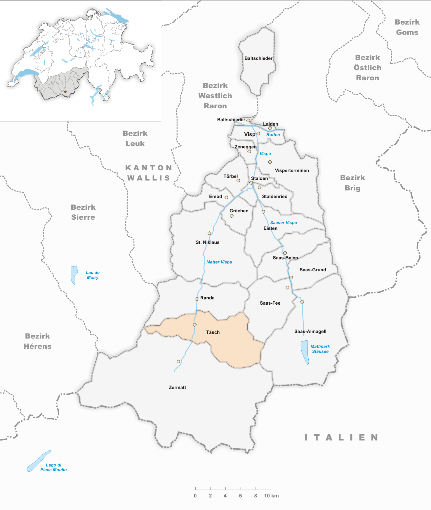 Municipality Täsch